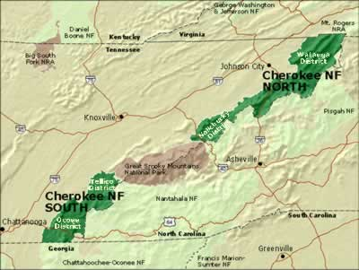 the ranger districts of the Cherokee National Forest